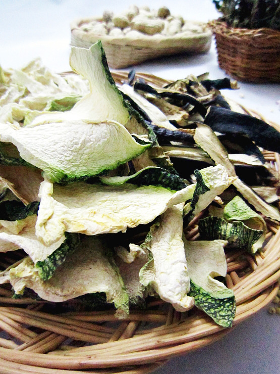 hobak-goji (dried Korean zucchini)